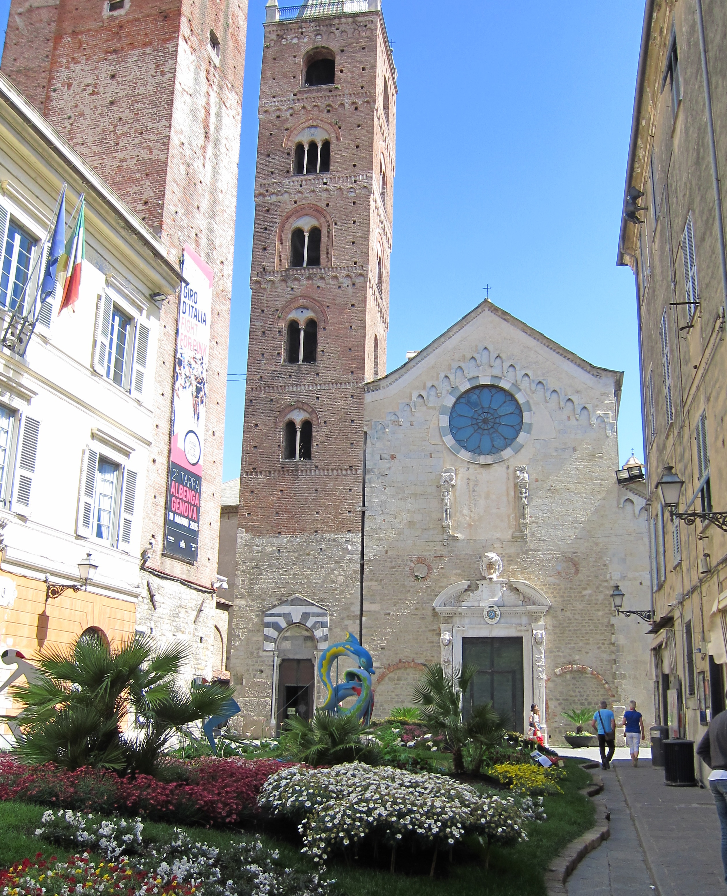 Cathedral with main square in evening sun